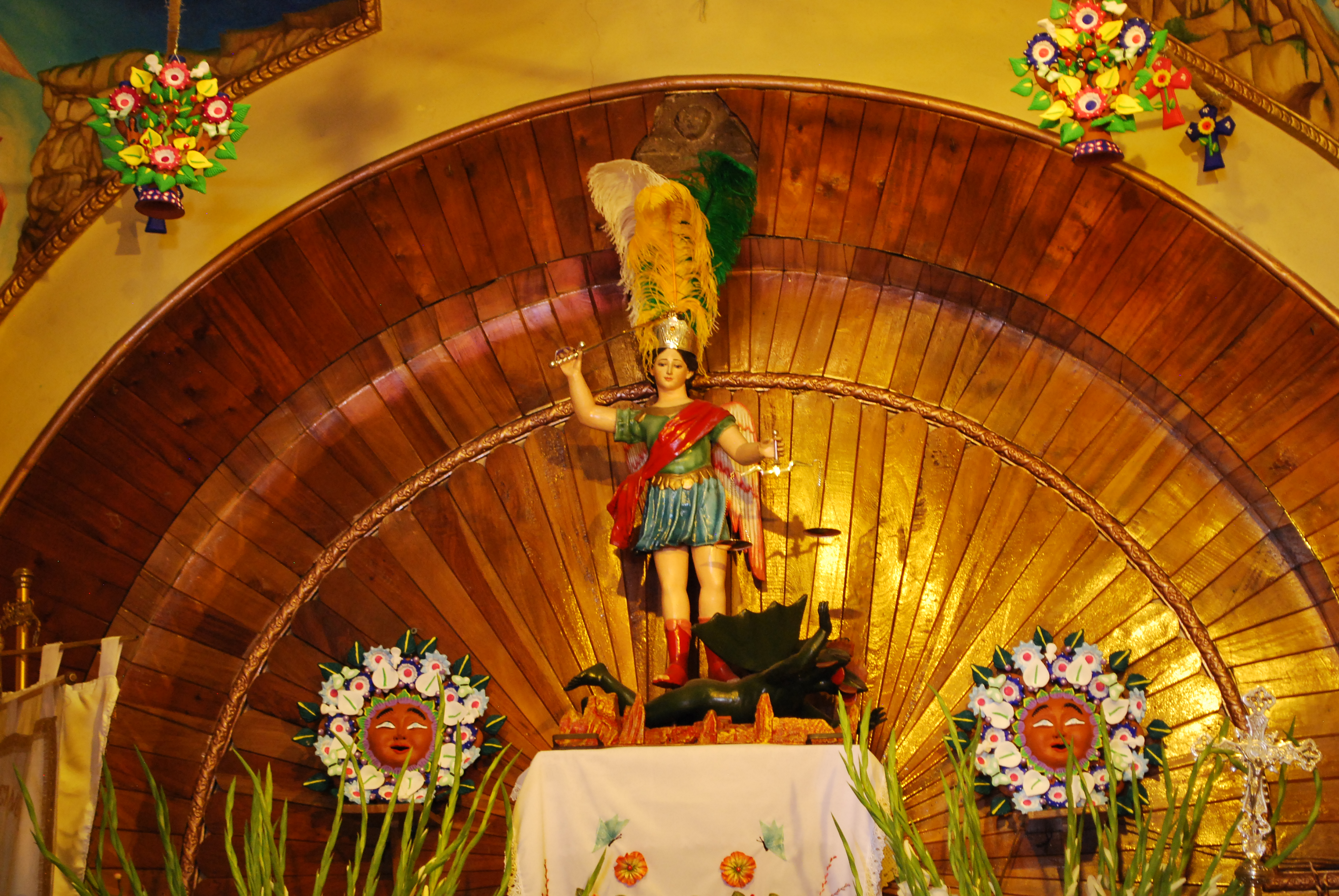 Image of the Archangel Michael in the parish of San Miguel Xicalco in Tlalpan, Mexico City